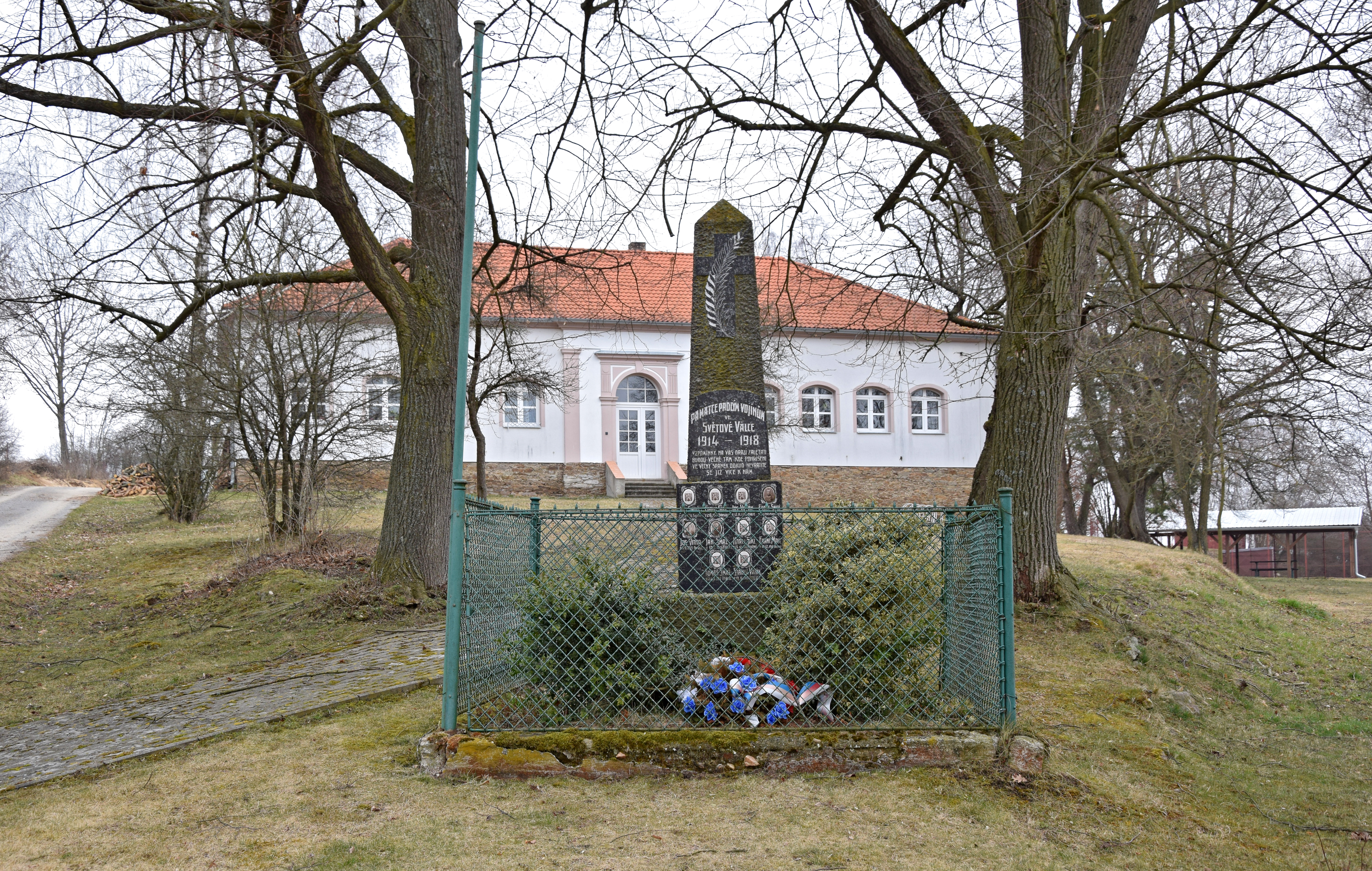 No. 28 and the memorial to the victims of the WWI in the village of Litoradlice, České Budějovice District, the Czech Republic.